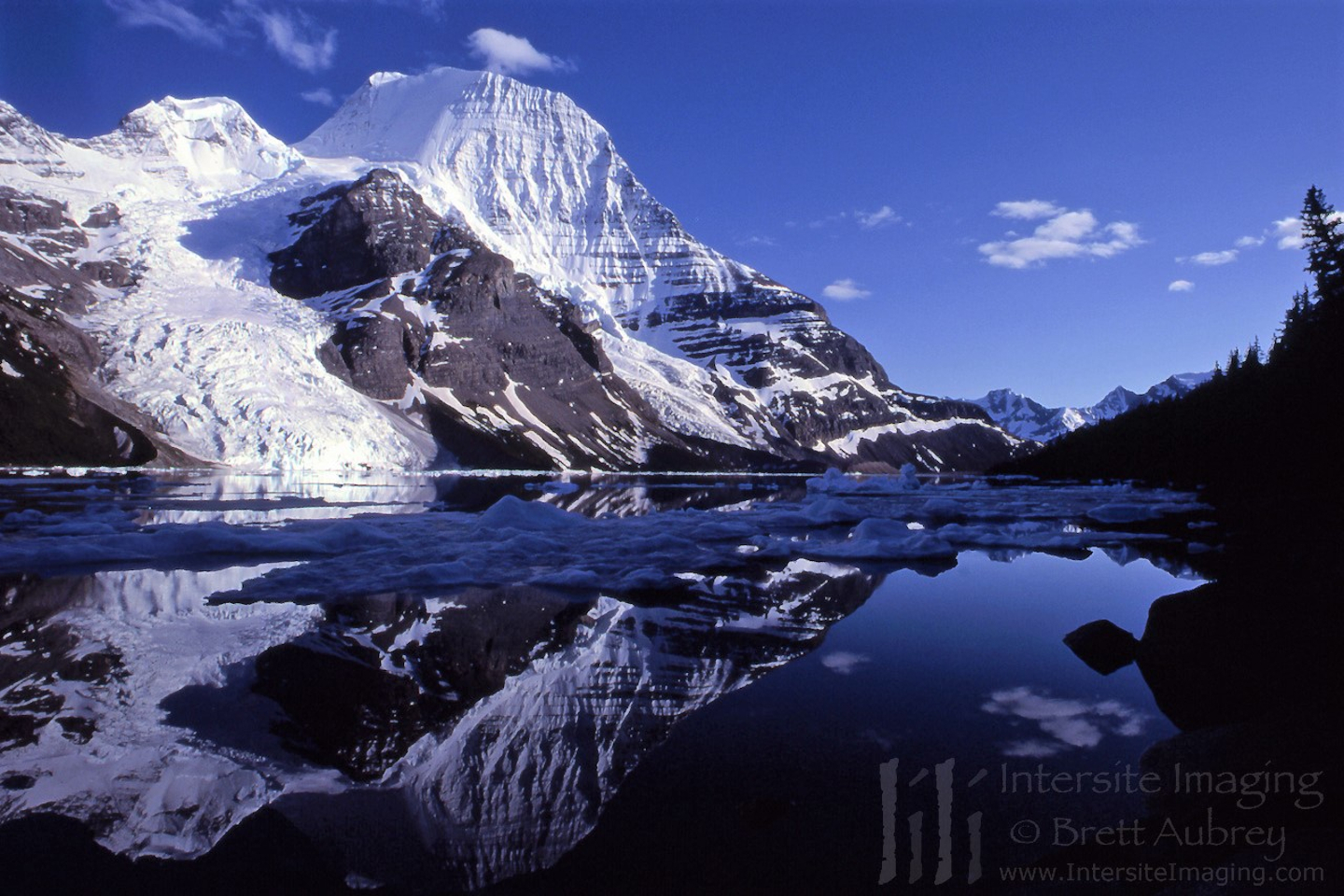 Mt. Robson as seen from Berg Lake, reflected. Mt. Robson, in British Columbia, Canada is the tallest peak in the Canadian Rockies and is 77 kilometres (48 mi) WNW from the Jasper townsite. It is wholly within B.C.'s Mt. Robson Provincial Park. Emperor Ridge is to the right of the summit, while Fuhrer Ridge is to the left. The face is in two 'sections': the Emperor Face is on the right, in the sunshine, while the North Face route is to the left, in shade, in the upper reaches in this photo. Re the North Face: "With its purity of line and directness of purpose, this elegant face may fairly claim to offer one of the finest ice routes in the Canadian Rockies"[1].